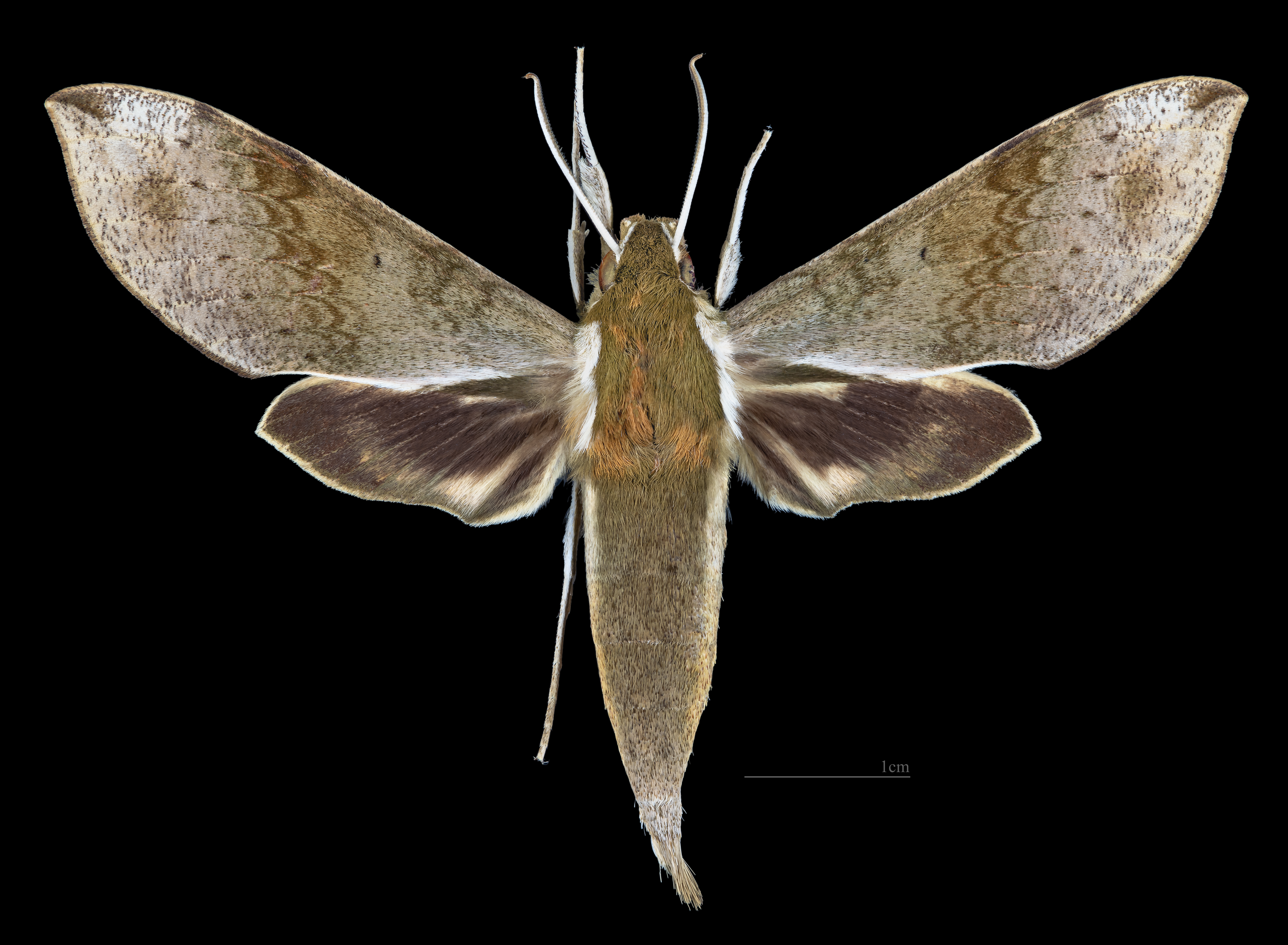 Xylophanes schausi - Dorsal side Collection of the Mathematician Laurent Schwartz